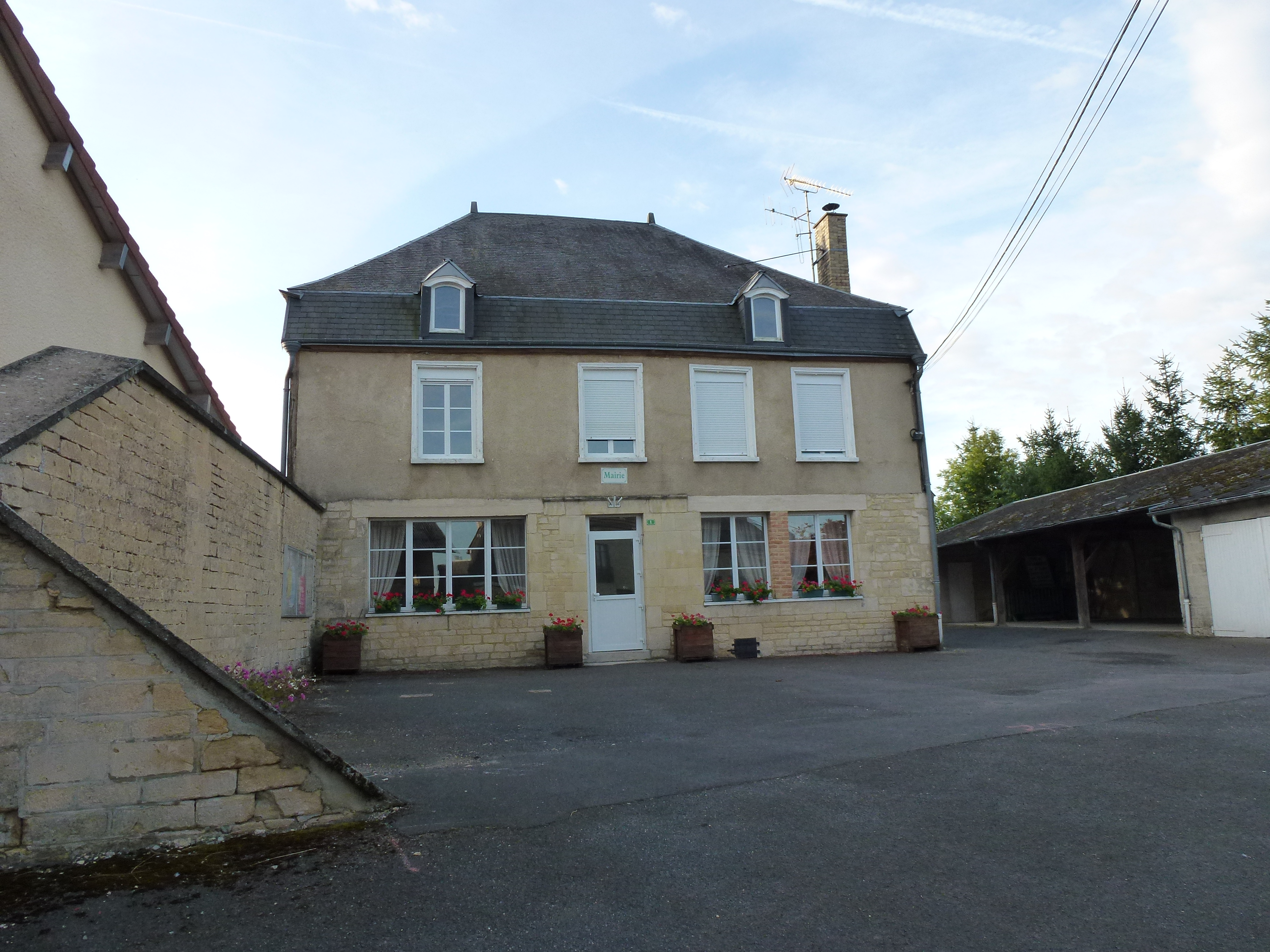 Saint-Lambert-et-Mont-de-Jeux (Ardennes) mairie à St.Lambert